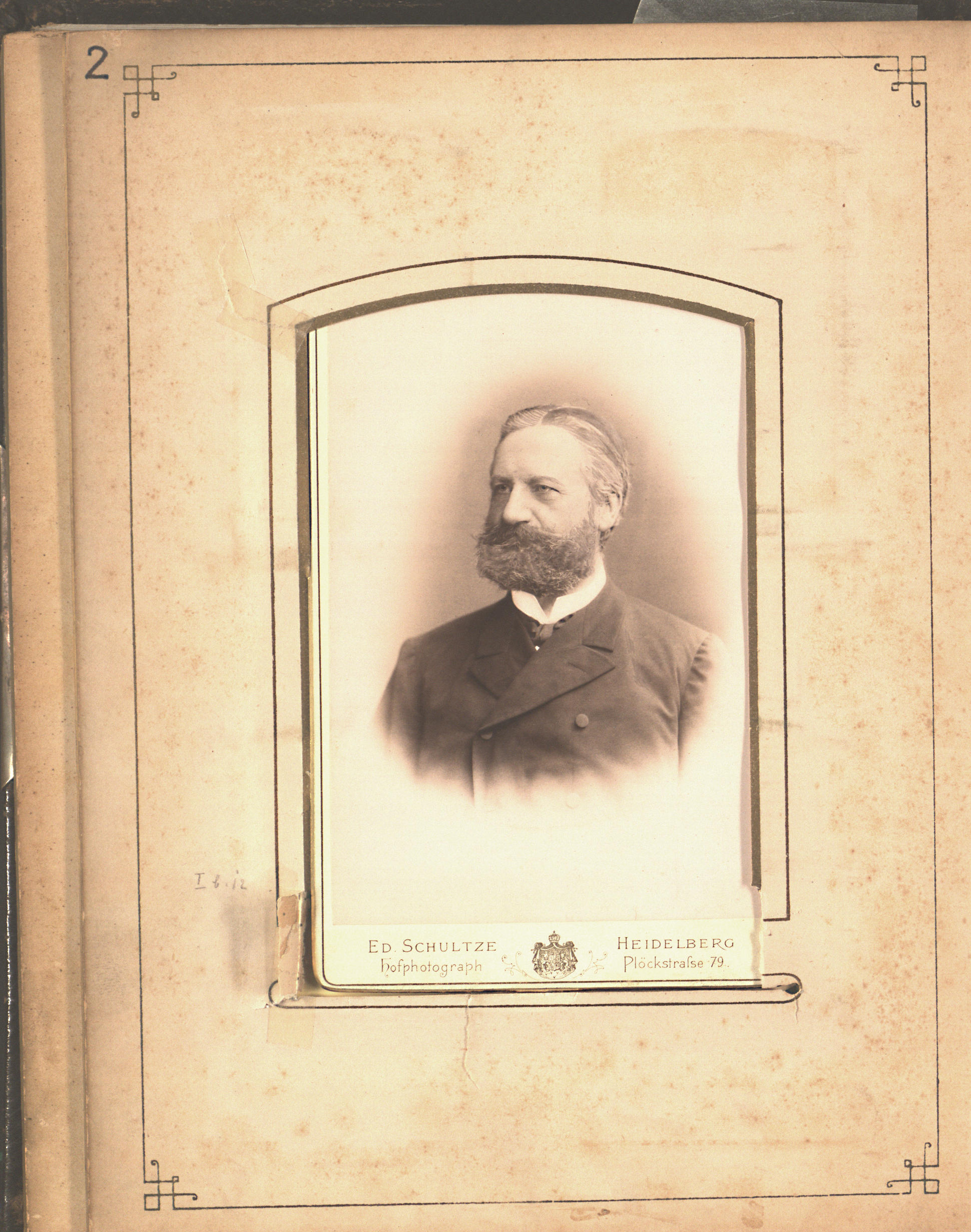 Depicting Bekker, Ernst Immanuel